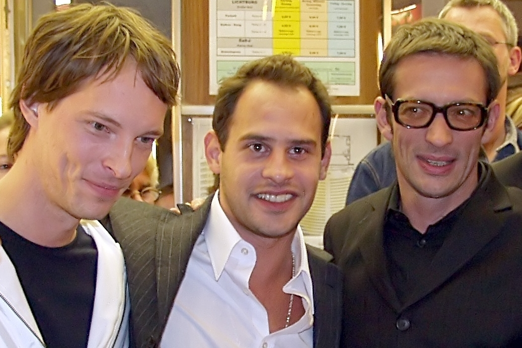 Martin Weiß, Moritz Bleibtreu, Oskar Roehler (director) in front of the movie theater "Lichtburg" in Essen, Germany before the Northrhine-Westphalia premiere of the movie "Agnes und seine Brüder"